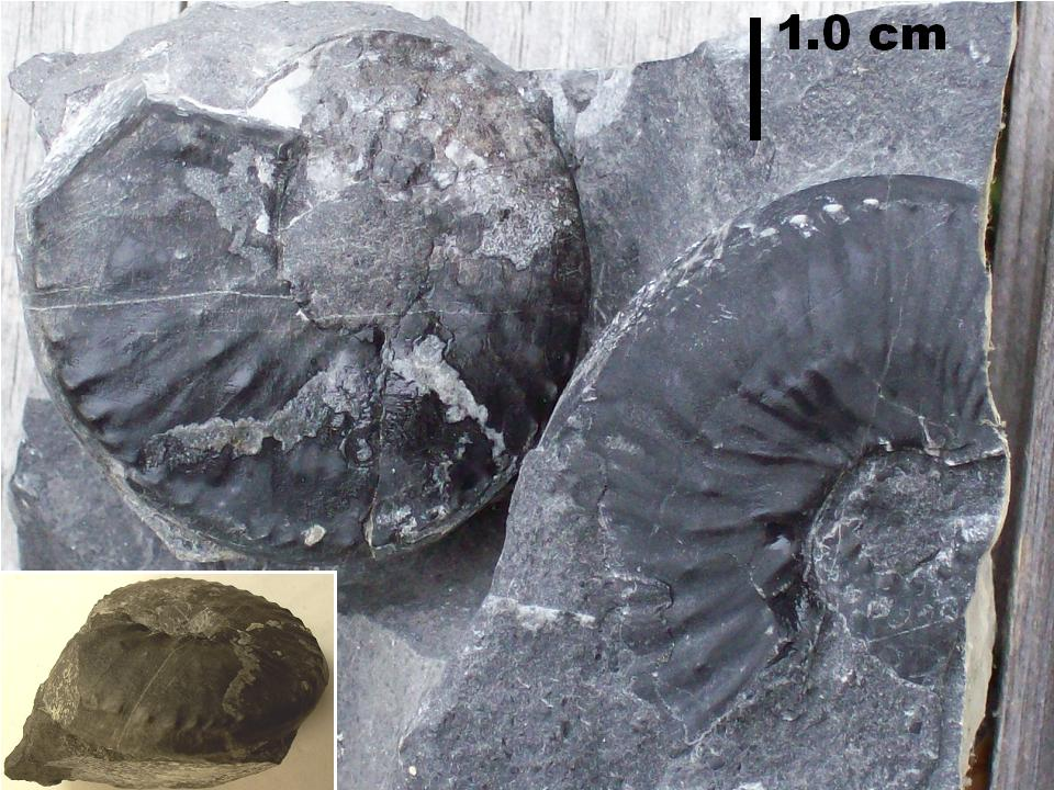 Paraceratites trinodosus - late Anisian (Middle Triassic). Specimens from the Prezzo Limestone, a formation outcropping in the italian Southern Alps.